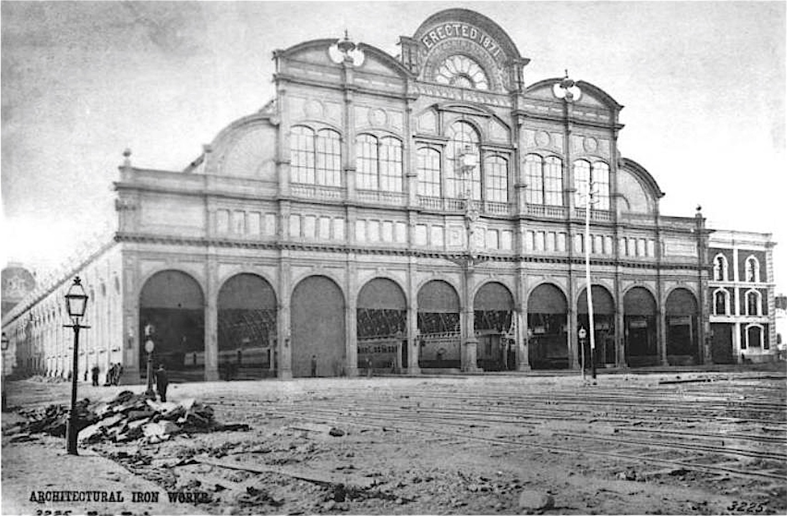 North side of the (now demolished) train shed of Grand Central Depot, New York City